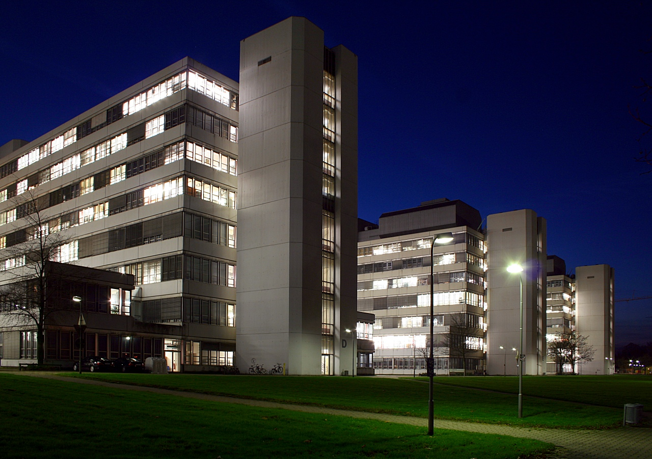 The university of Bielefeld early autumn evening at the end of November 2006. I propped up the camera on a fire hydrant and used low ISO settings and long exposure times.